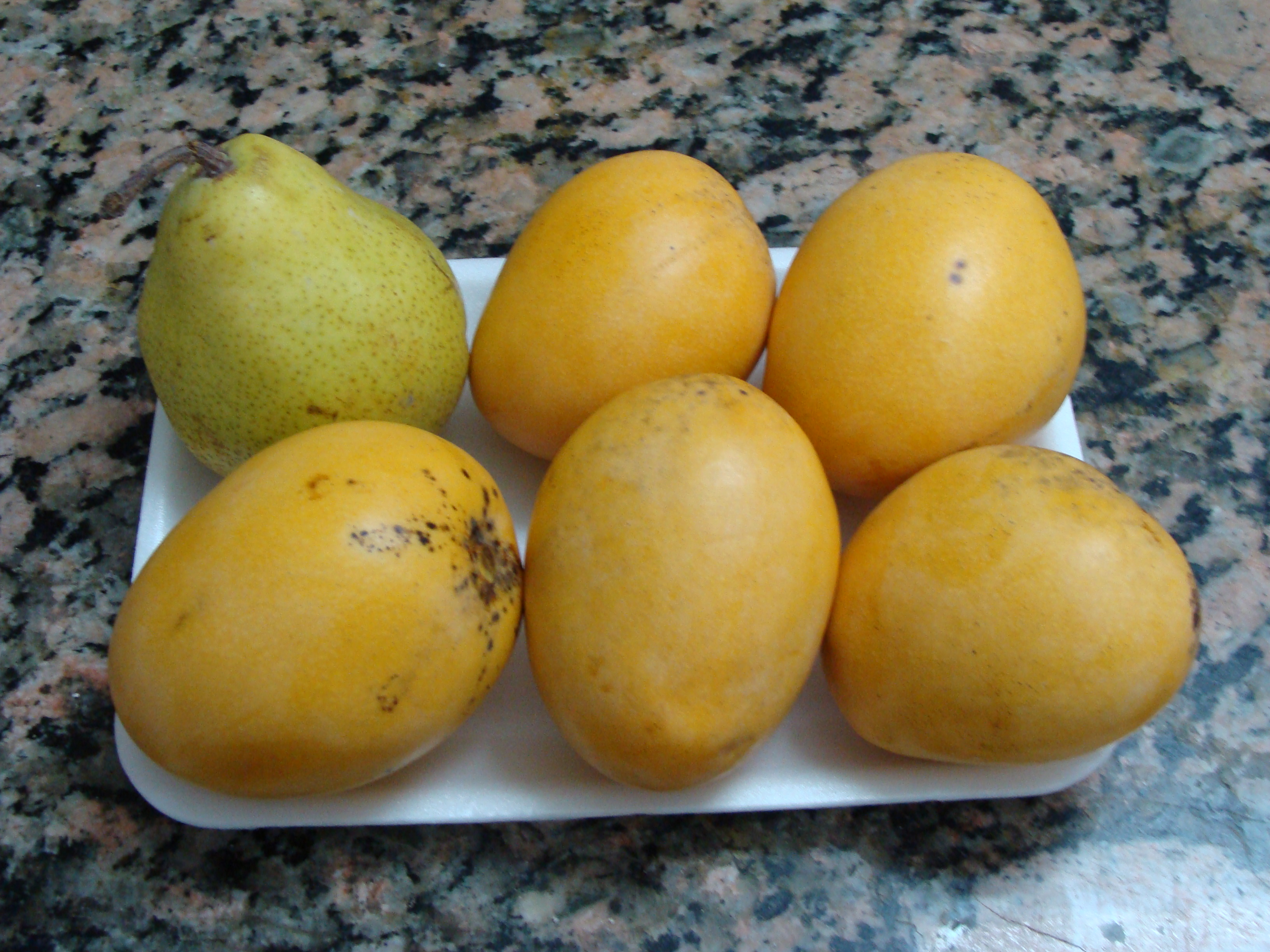 "Criollo" mango fruits (Mangifera indica) cultivated in Venezuela, with a pear to compare size.